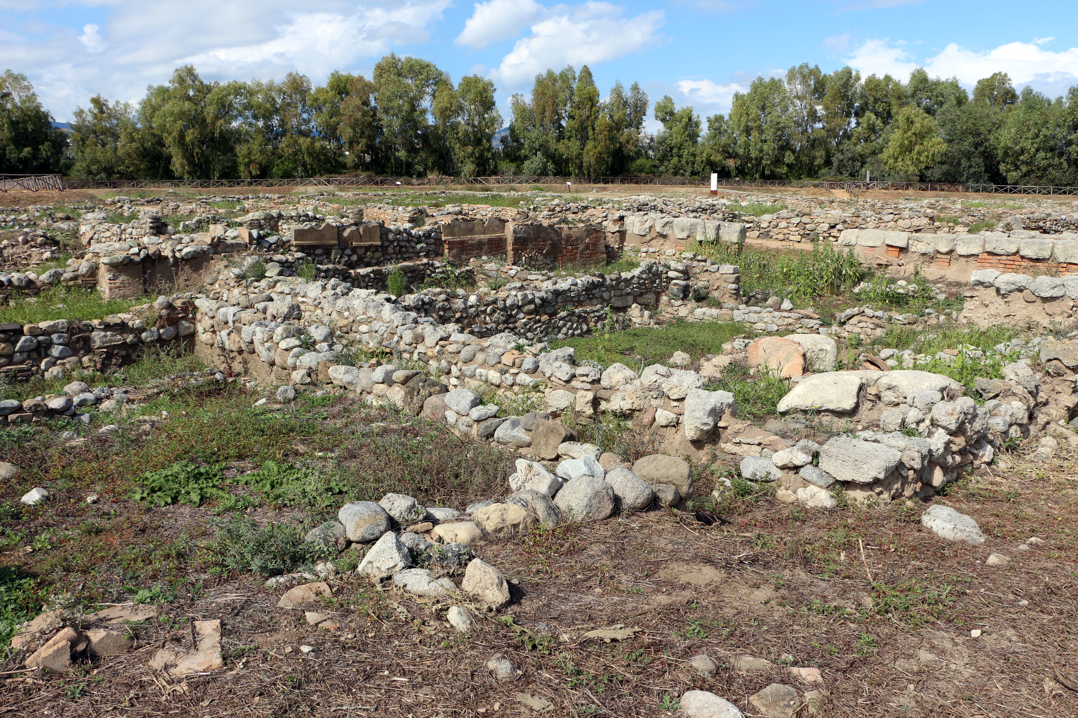 Lokroi Epizephyrioi